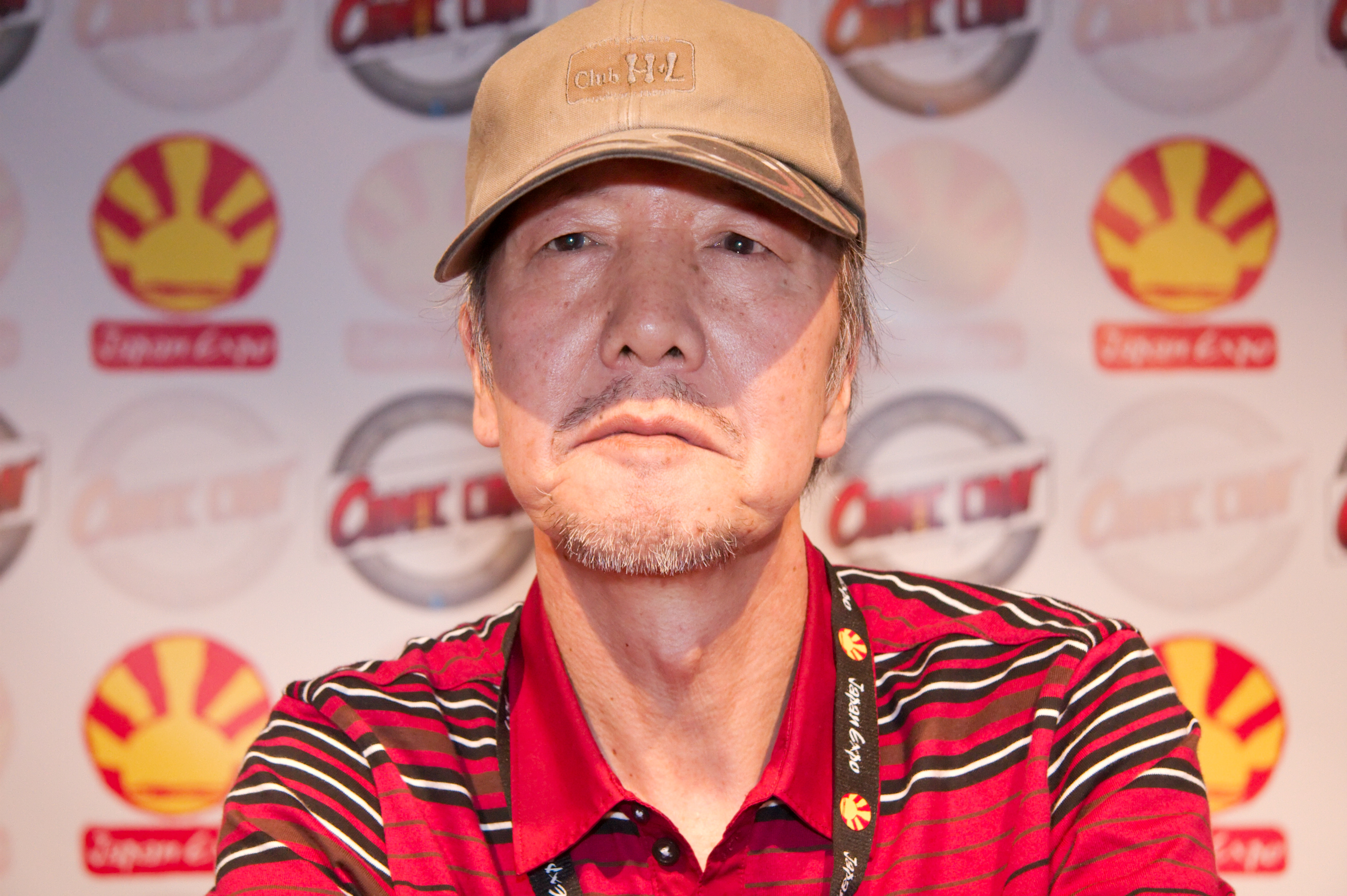 Autograph session with Moriyasu Taniguchi at Japan Expo 2009 (Paris, France).